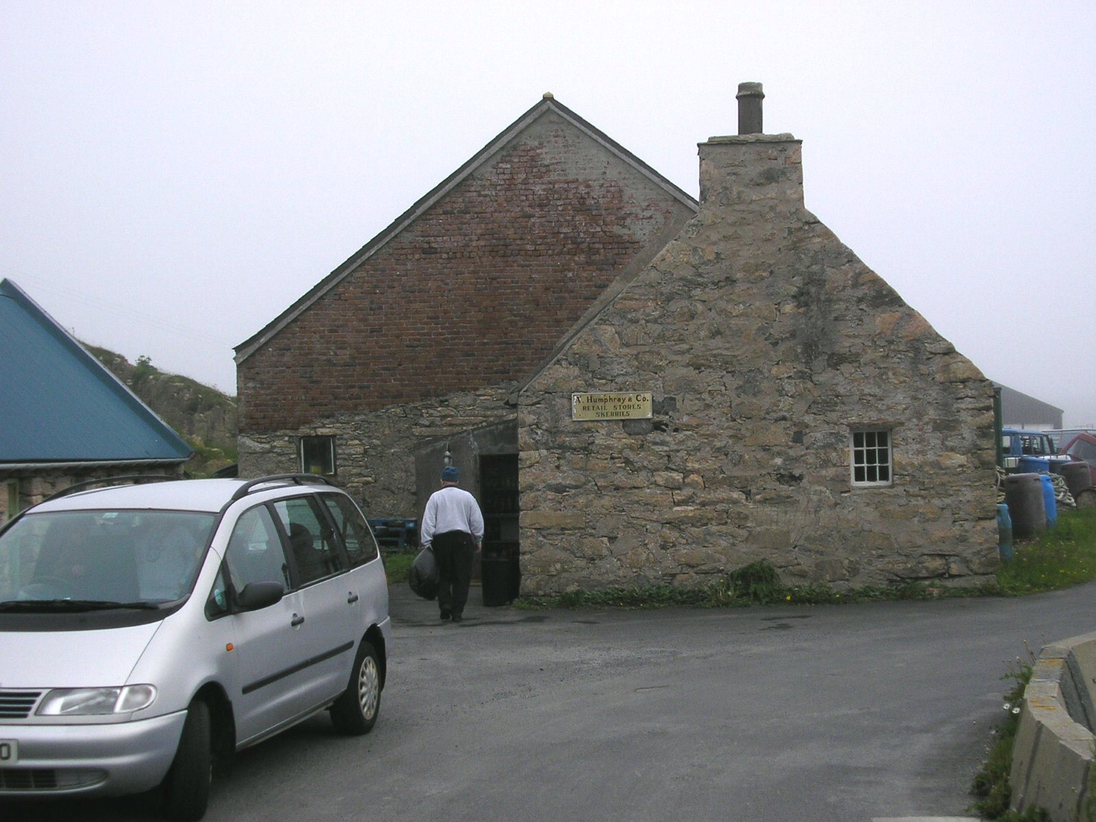 "A. Humphray & Co. Retail Stores Skerries", Out Skerries, Shetland Isles.